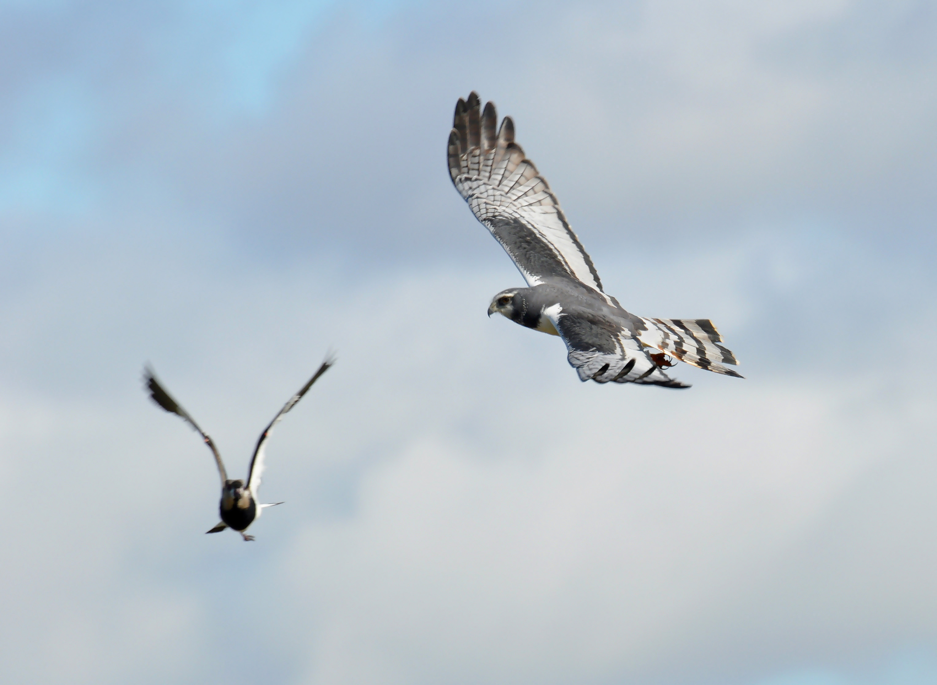 Long-winged Harrier (Circus buffoni) male being attacked by a Sothern Lapwing (Vanellus chilensis) photographed in Rio Grande do Sul, Brazil, in August 2010.